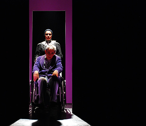 Cena de "Cuidados de Amor, de 2014, peça que tratava do envelhecimento. Foto: Jesualdo Castro.